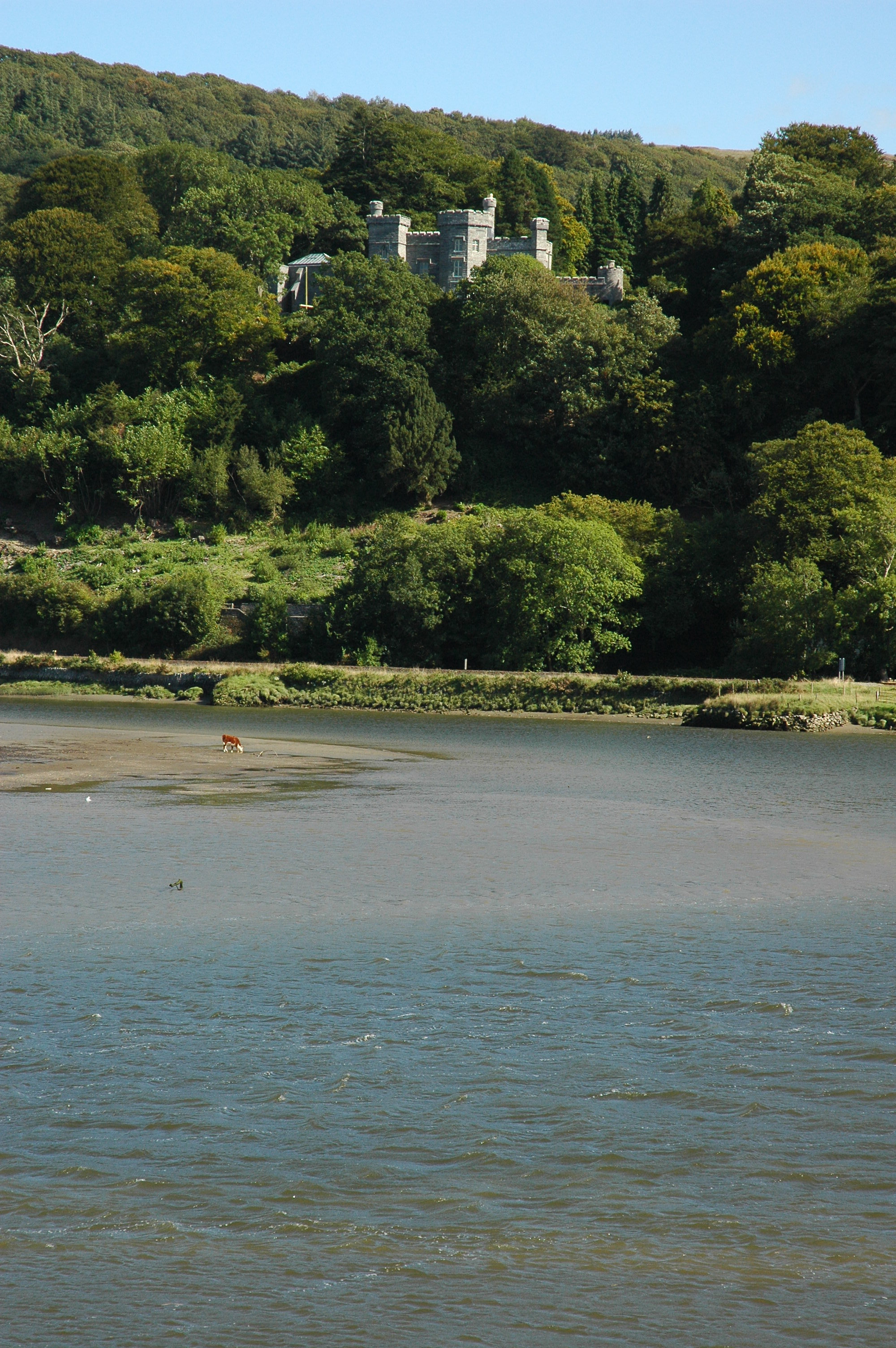 Glandyfi Castle